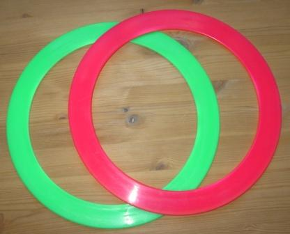 Picture of juggling rings